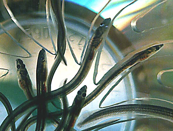 glasseel in ecoscope - photo Uwe Kils